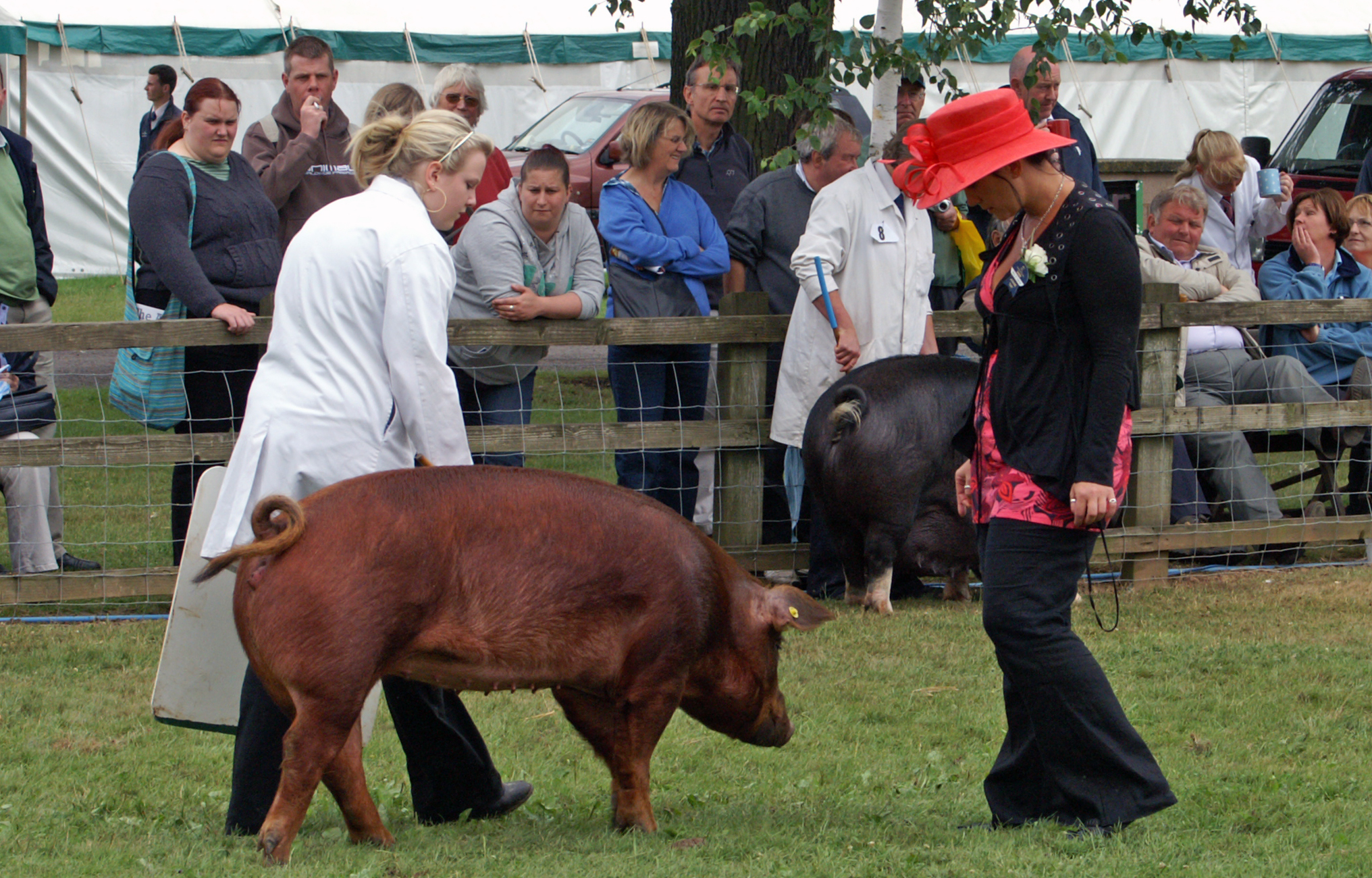 A Duroc sow being shown at The Last Royal Show